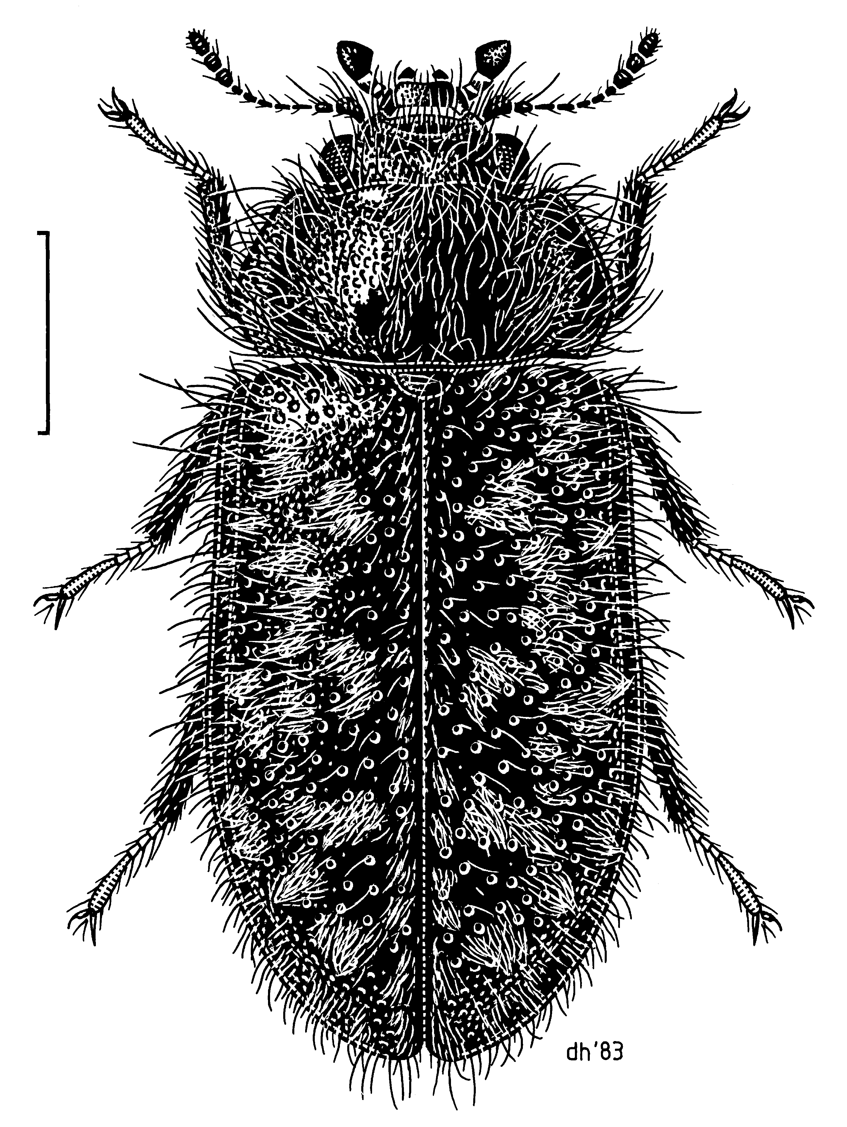 (Coleoptera: Trogossitidae) Grynoma regularis illustrated by Des Helmore.